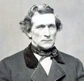 Charles Denison, US Representative from Pennsylvania